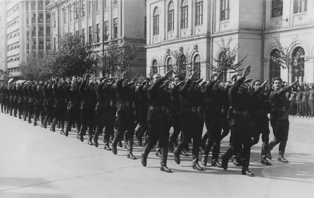 The Legionary Movement (Iron Guard) in Bucharest, Romania. Miscarea Legionara in Bucuresti.